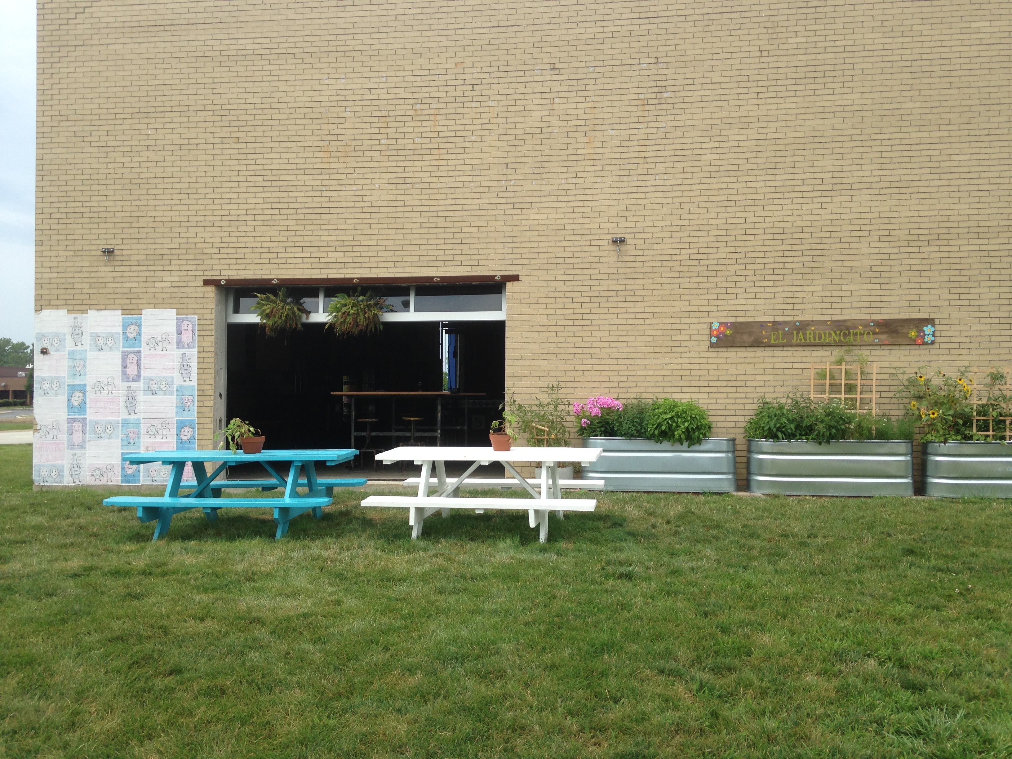 5 Rabbit Cerveceria in Bedford Park, Illinois, U.S. This is the side entrance to the brewery and taproom.